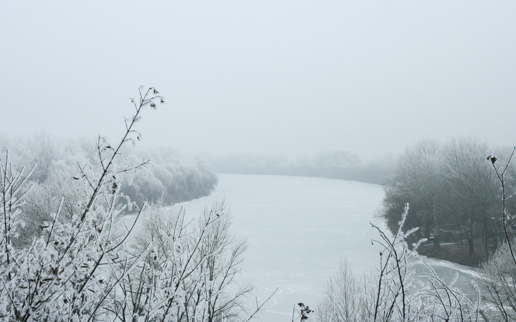 The Tisza river (Hungary) in winter